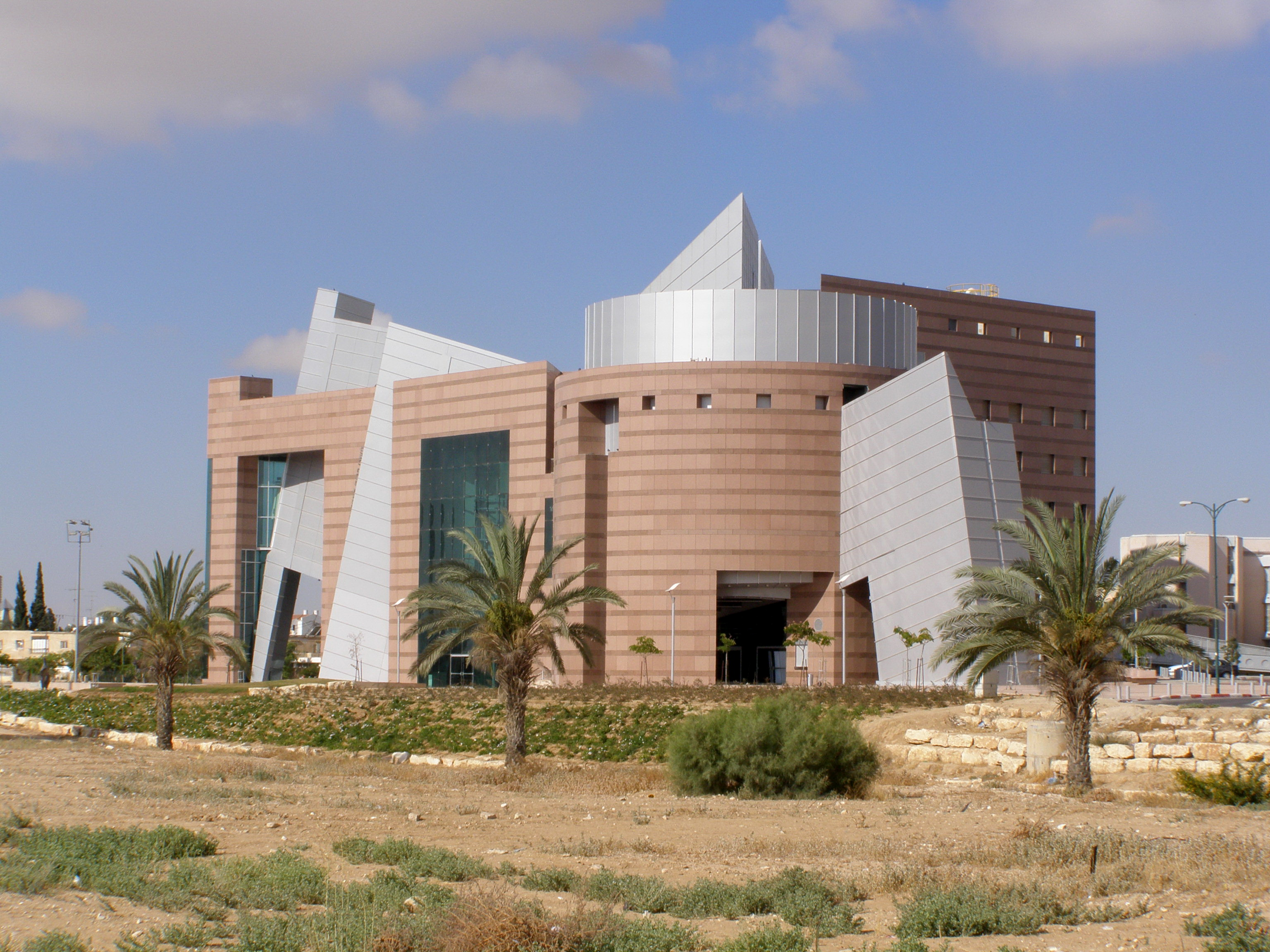 Beersheba, Merkaz Ezrahi, theatre